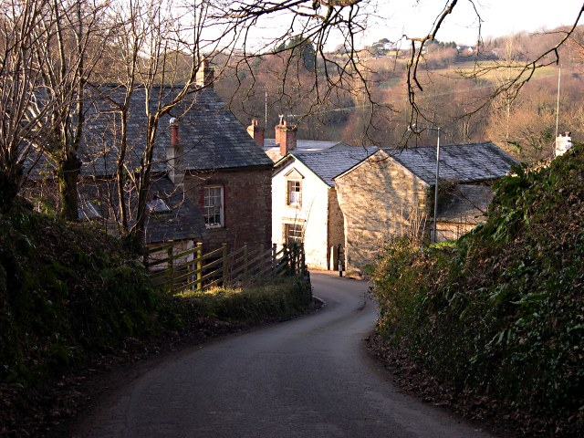 Lower Lamellion Near the bottom of a very steep hill from Liskeard to Coombe Station.